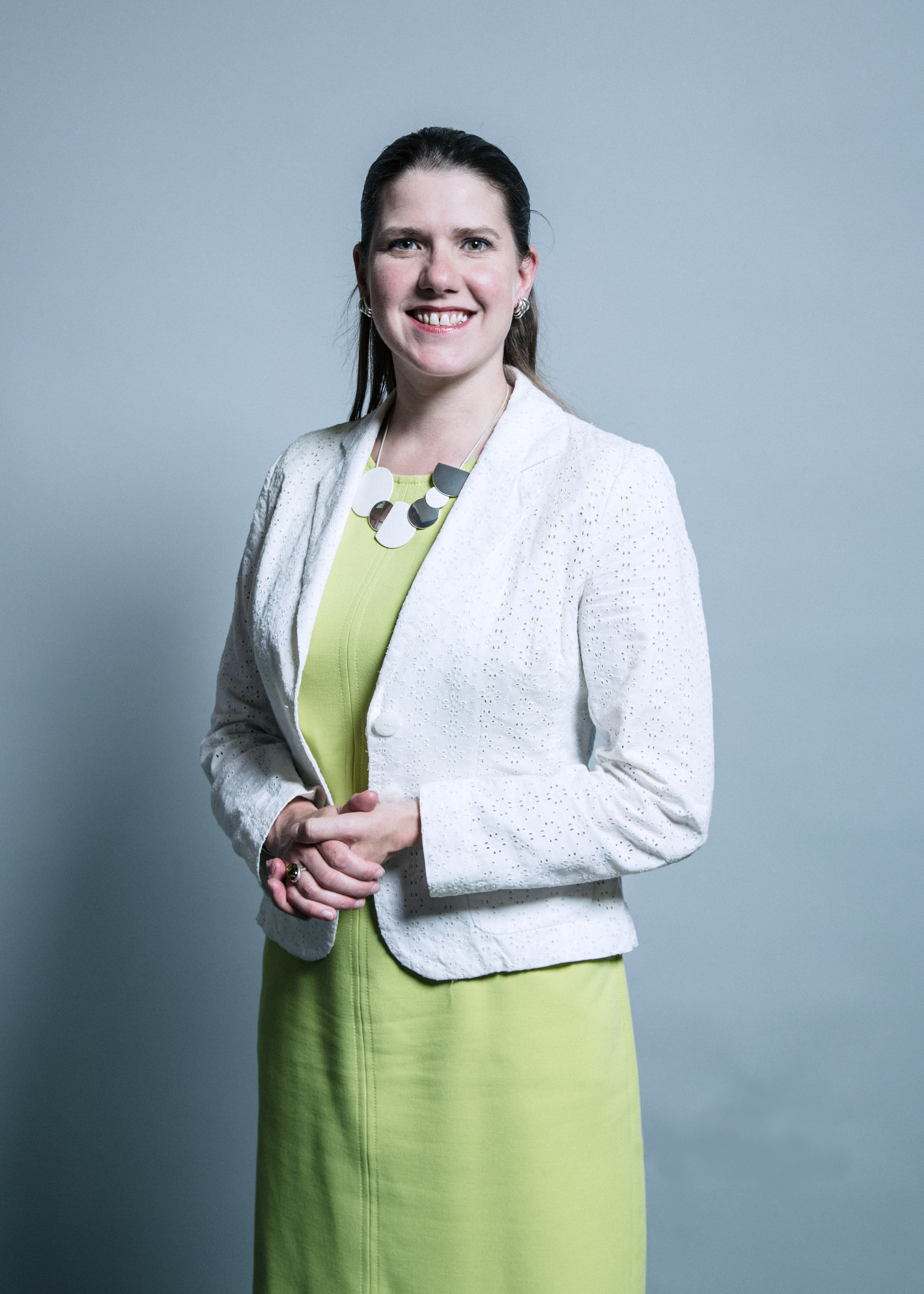 Official portrait of Jo Swinson